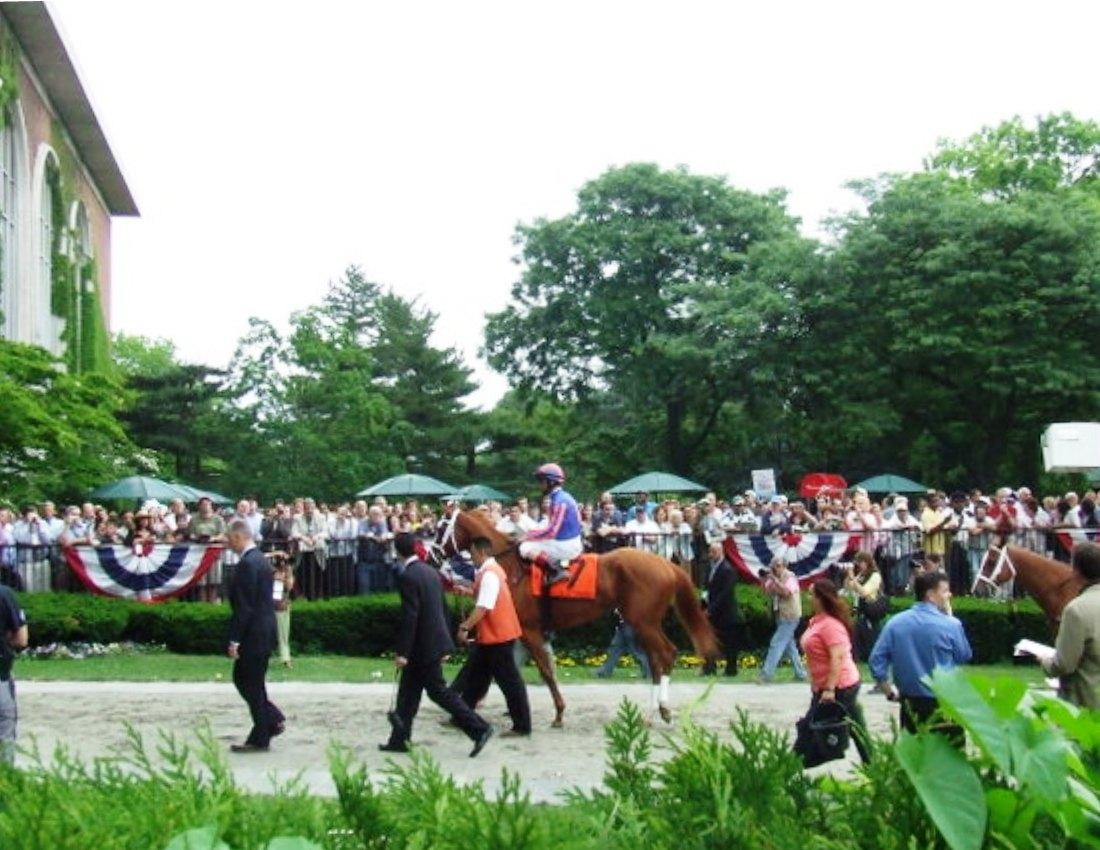 Rags to Riches (horse) at the Belmont Park paddock area. Date: June 9th, 2007 Place: Belmont Park Event: 139th running historic Belmont Stakes Grade I event ファイル:Rags to Riches Horse at Belmont Park.jpg